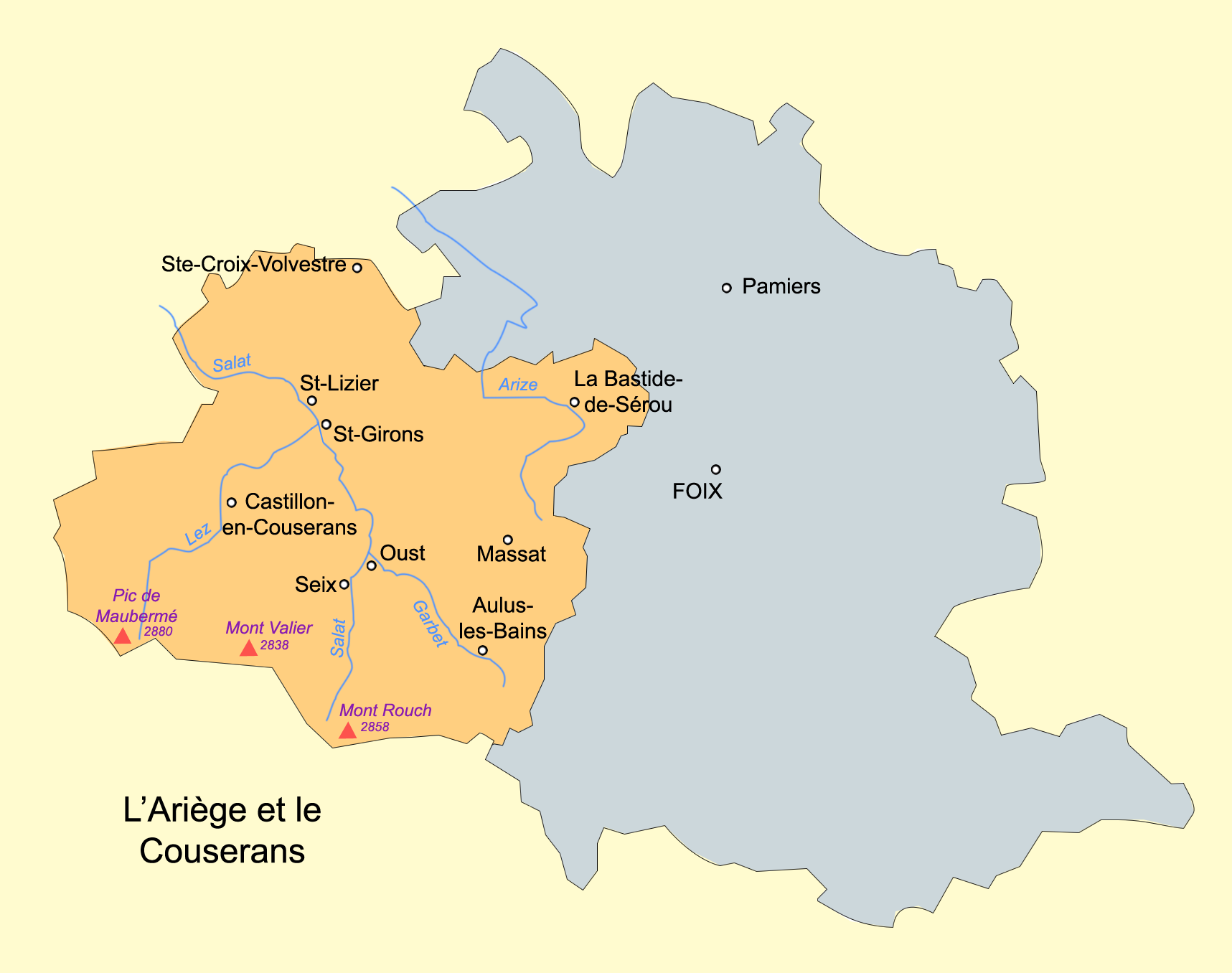 geographic map of Ariege and Couserans